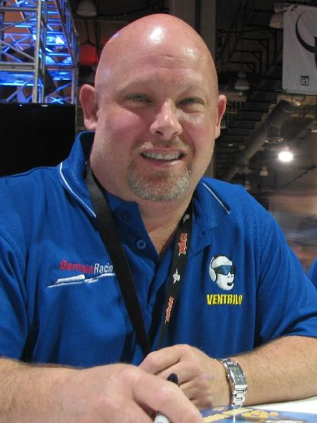 Todd Bodine during a autograph signing.